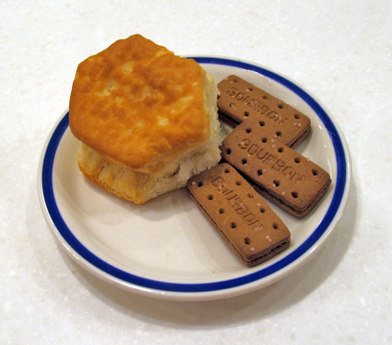 American biscuit (left) from Bob Evans Restaurant (Unit 141, Pittsburgh, PA) and British biscuits (right) from a packet of Britannia "Bourbon" biscuits (India), showing the difference between the American English and British English meaning of "biscuit."